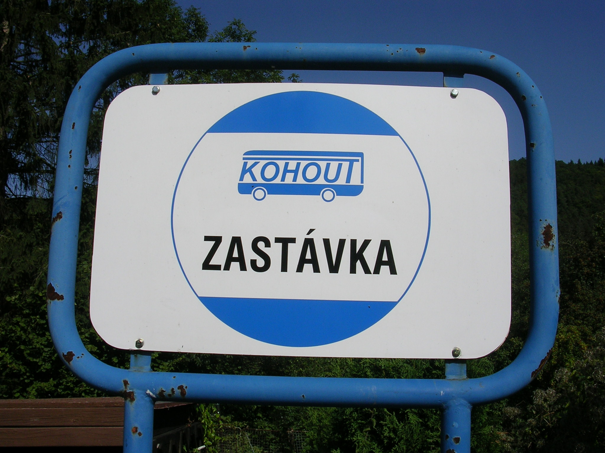 Roztoky, Rakovník District, Central Bohemian Region, the Czech Republic. A bus stop. - Google Maps - Google Earth